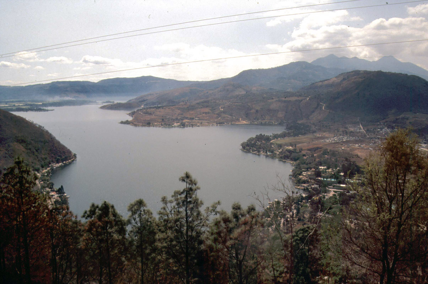 Amatitlansee,oben rechts Pacaya-Komplex